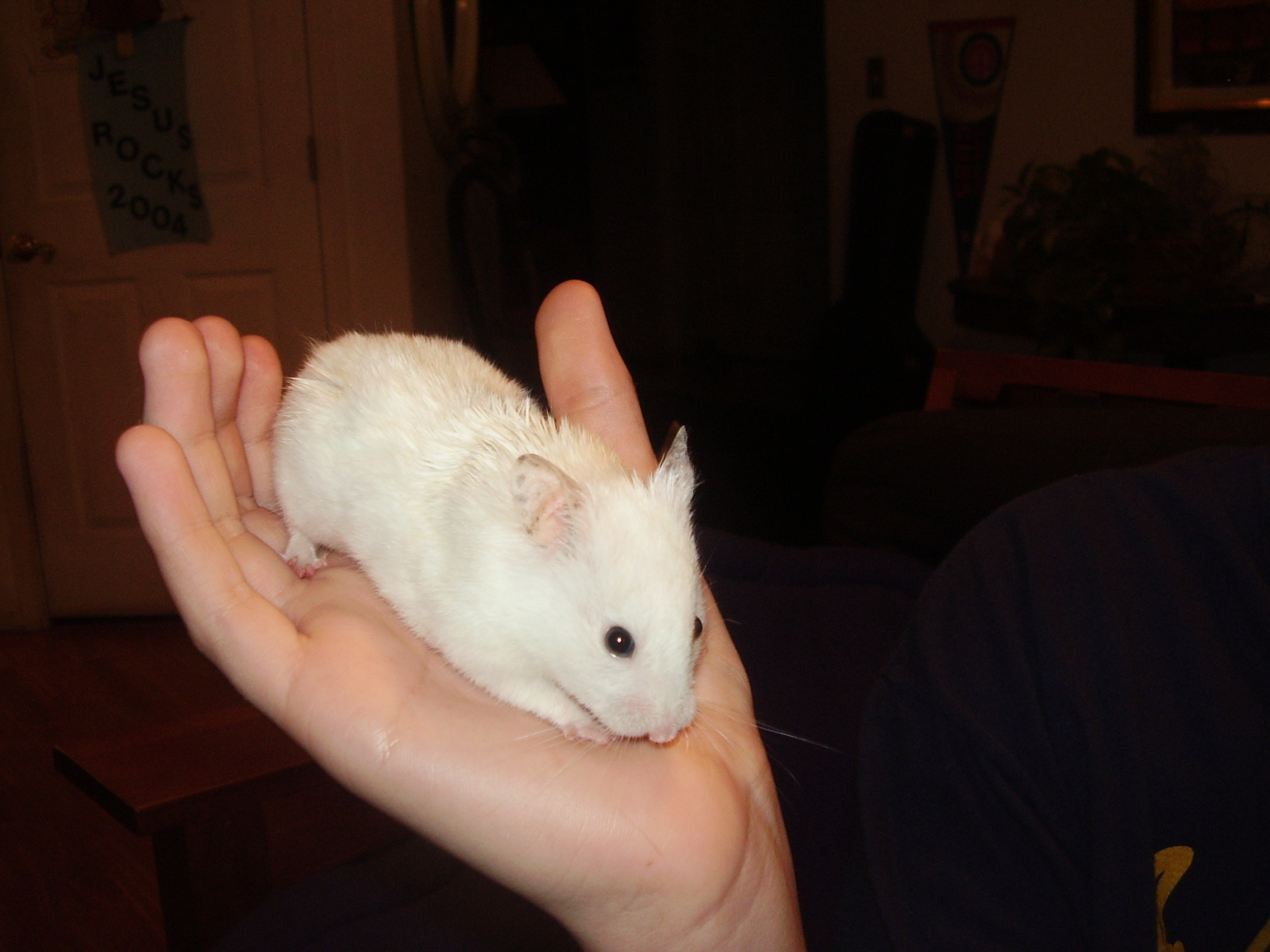 A hamster (I've got NO idea what type, regular store hamster)